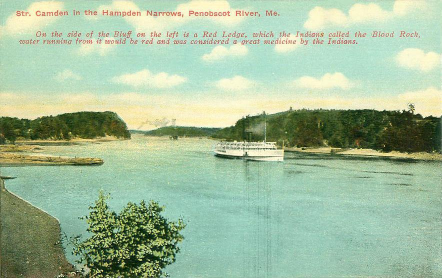 Steamer Camden in the Hampden Narrows, Penobscot River, Maine